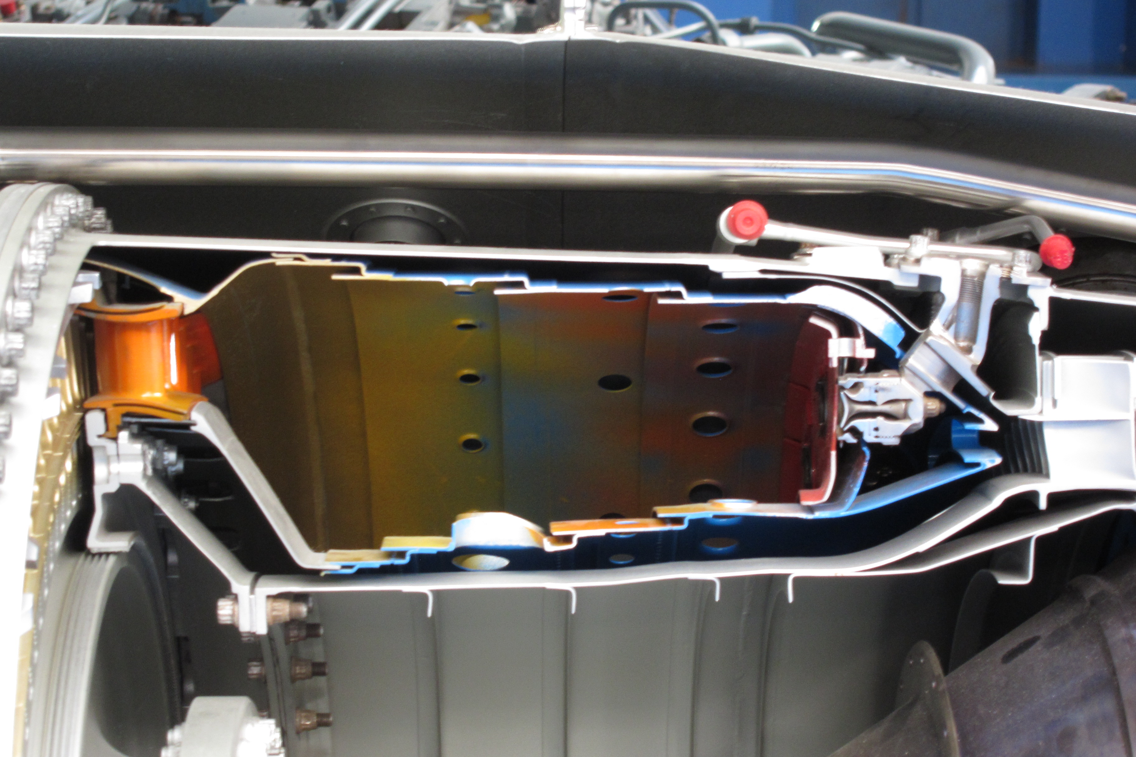 The sectioned combustor of a sectioned Rolls-Royce Turboméca Adour turbofan displayed at the Musée de l’Air in Paris, France. Air flow is from right to left. The first stage of the turbine stators (inlet guide vanes) can be seen far left, painted orange.